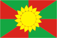 Novoberezanskoe (Krasnodar krai), flag